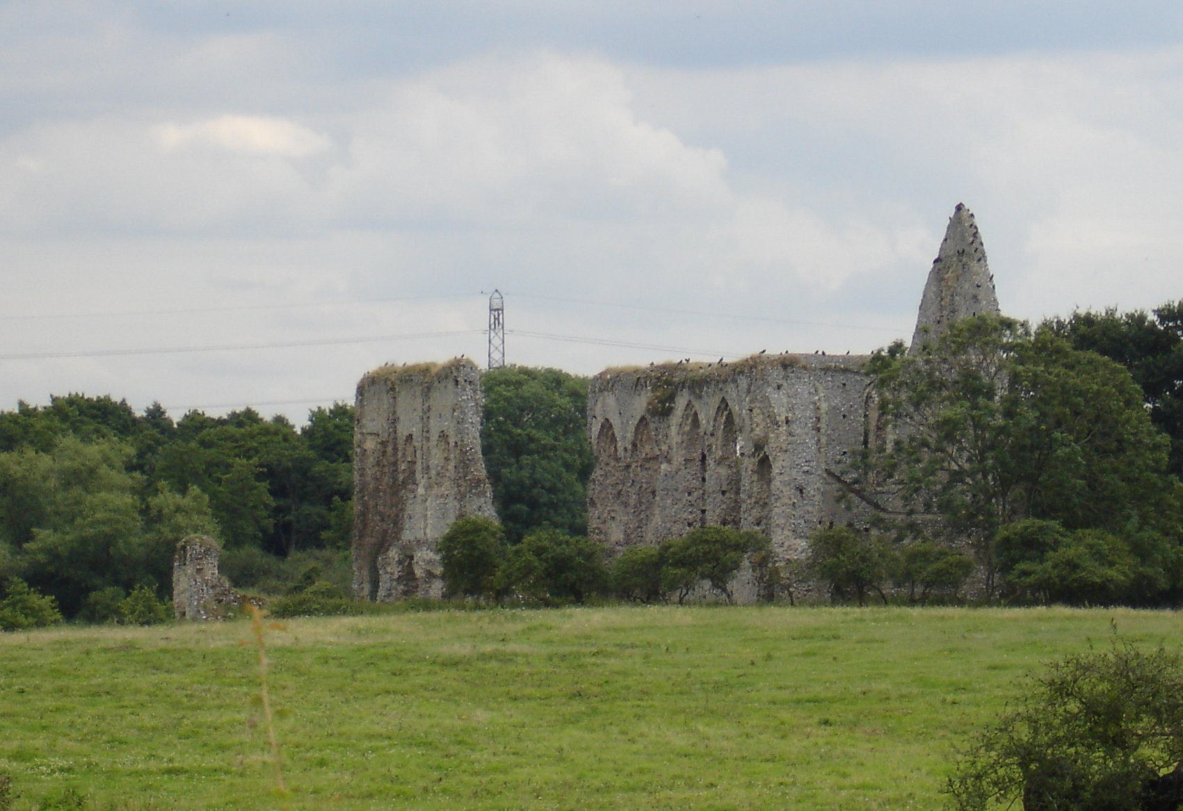 Newark Priory, Surrey, United Kingdom